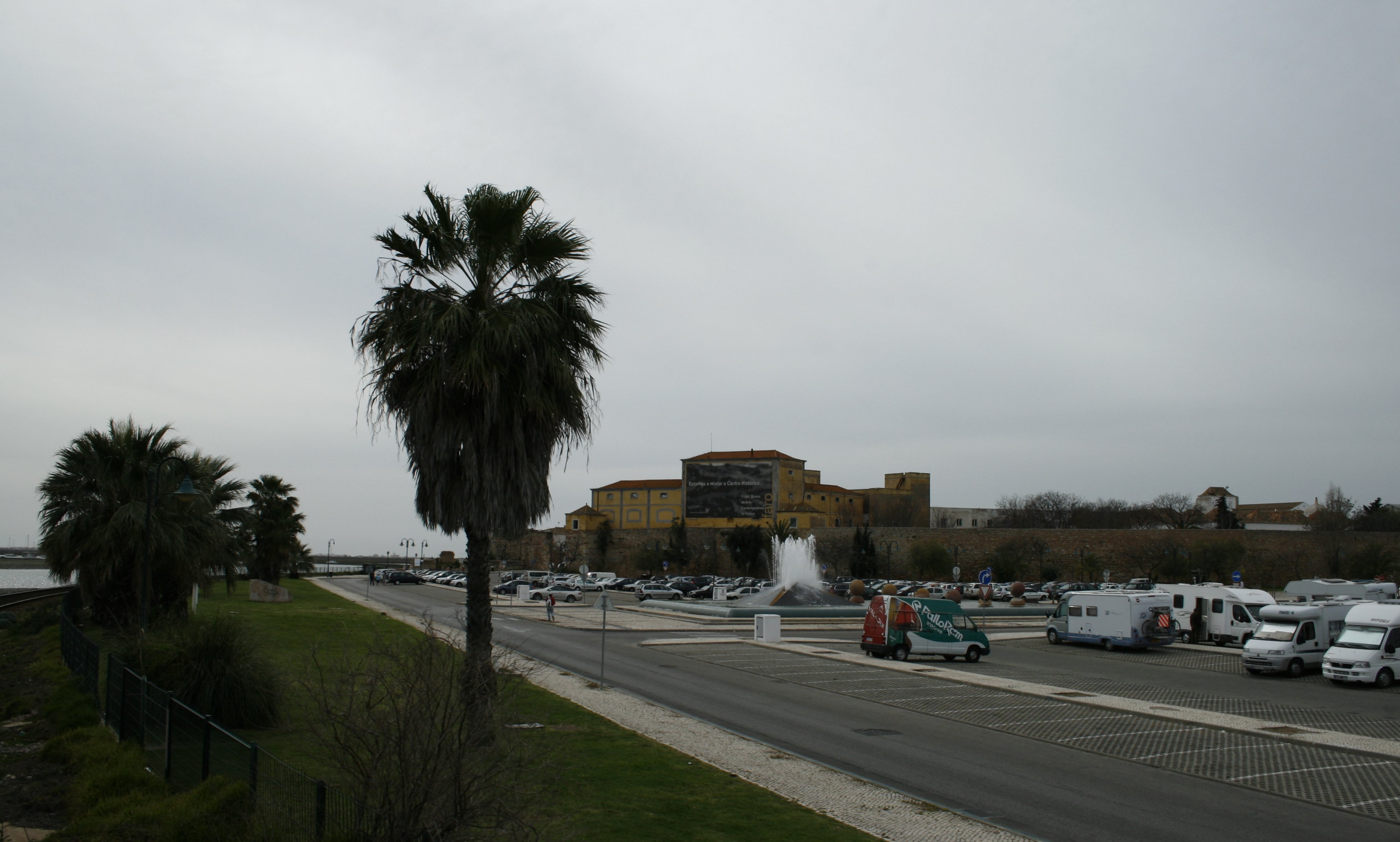 Old location of the demolished São Francisco Halt, near Faro, in Algarve, Portugal